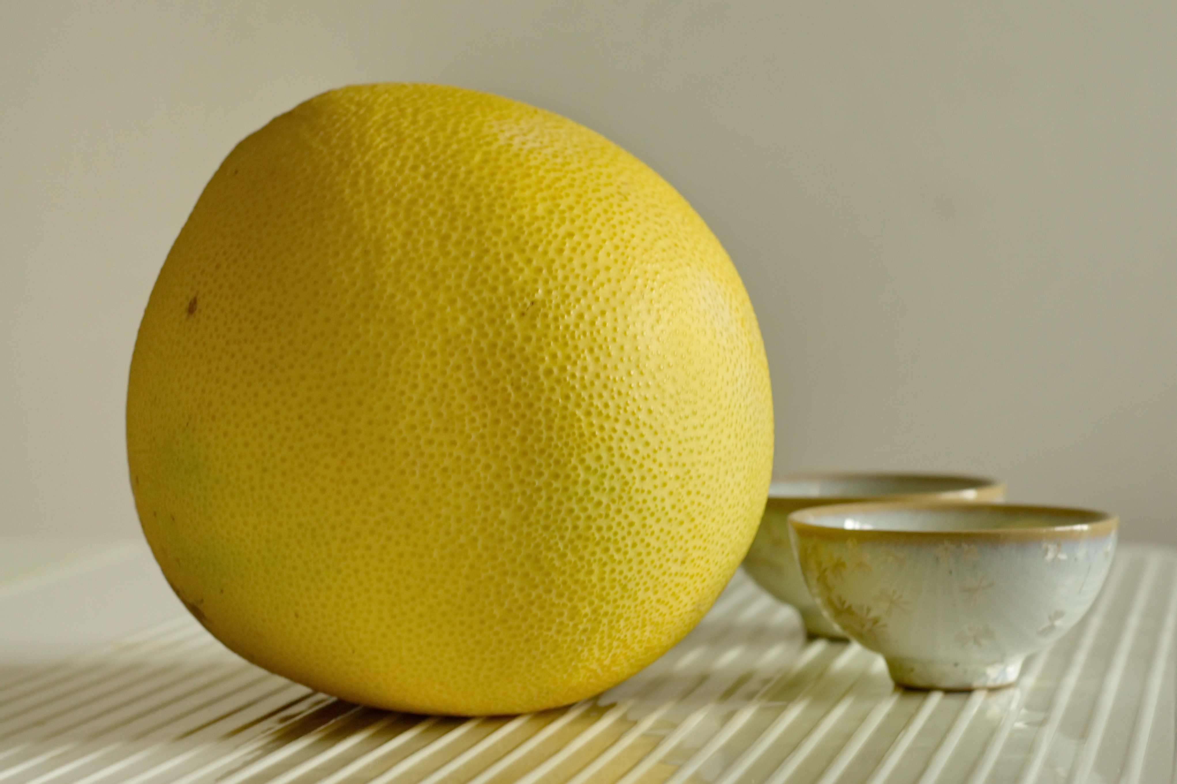 Citrus grandis Osbeck“Mato Paiyu”